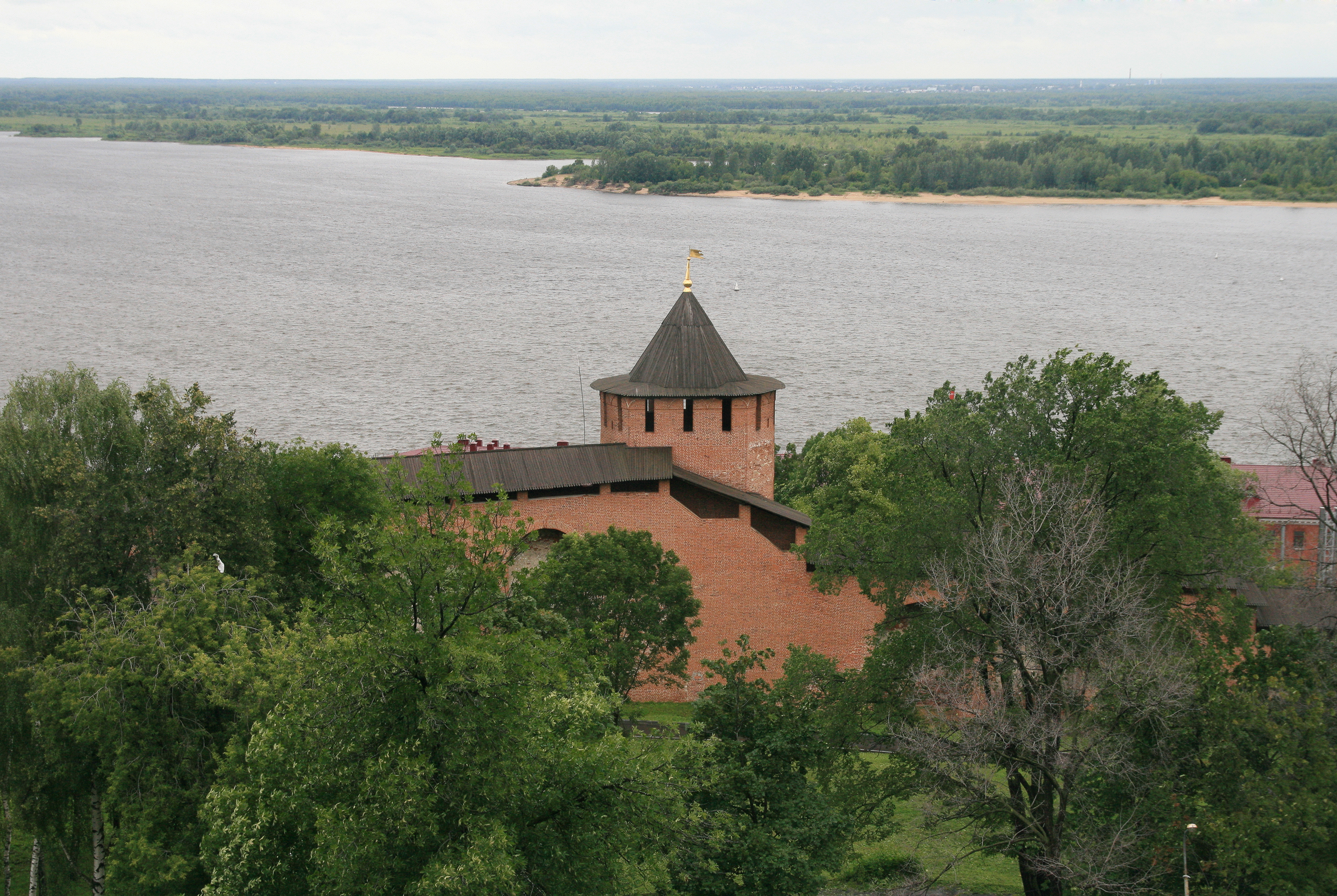 Belaya (White) Tower of Nizhny Novgorod Kremlin, XVI c